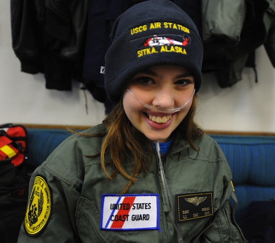 Claire Wineland, a 13-year-old resident of Calabasas, Calif., pauses for photo while wearing a Coast Guard flight suit tailored by Air Station Sitka personnel specifically for her Friday, Oct. 22, 2010.